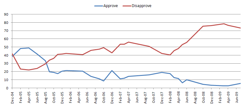 Approval rating of Victor Yushchenko. Source:[1]